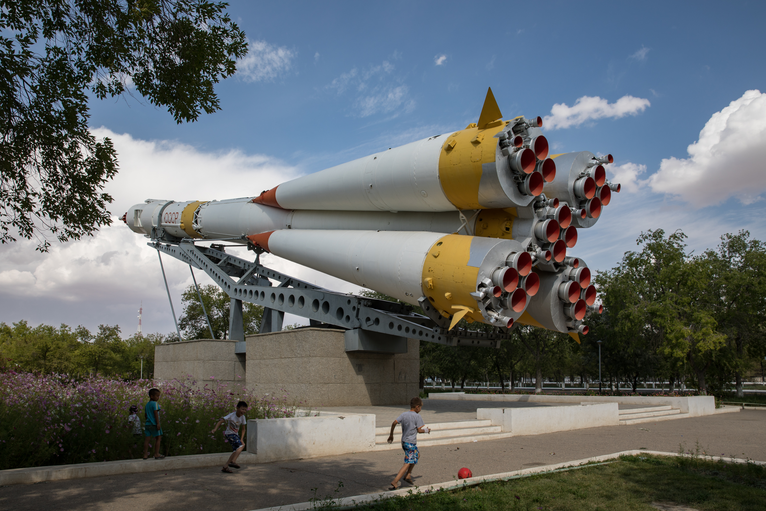 Baikonur City Soyuz Monument in a park.